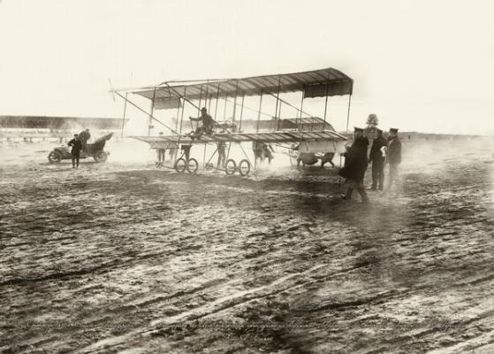 September 1910 St. Petersburg. 1st avianedelya Kolomyazhsky on the racetrack. Airplane "Farman-4" pilot Lieutenant E. Rudnev.